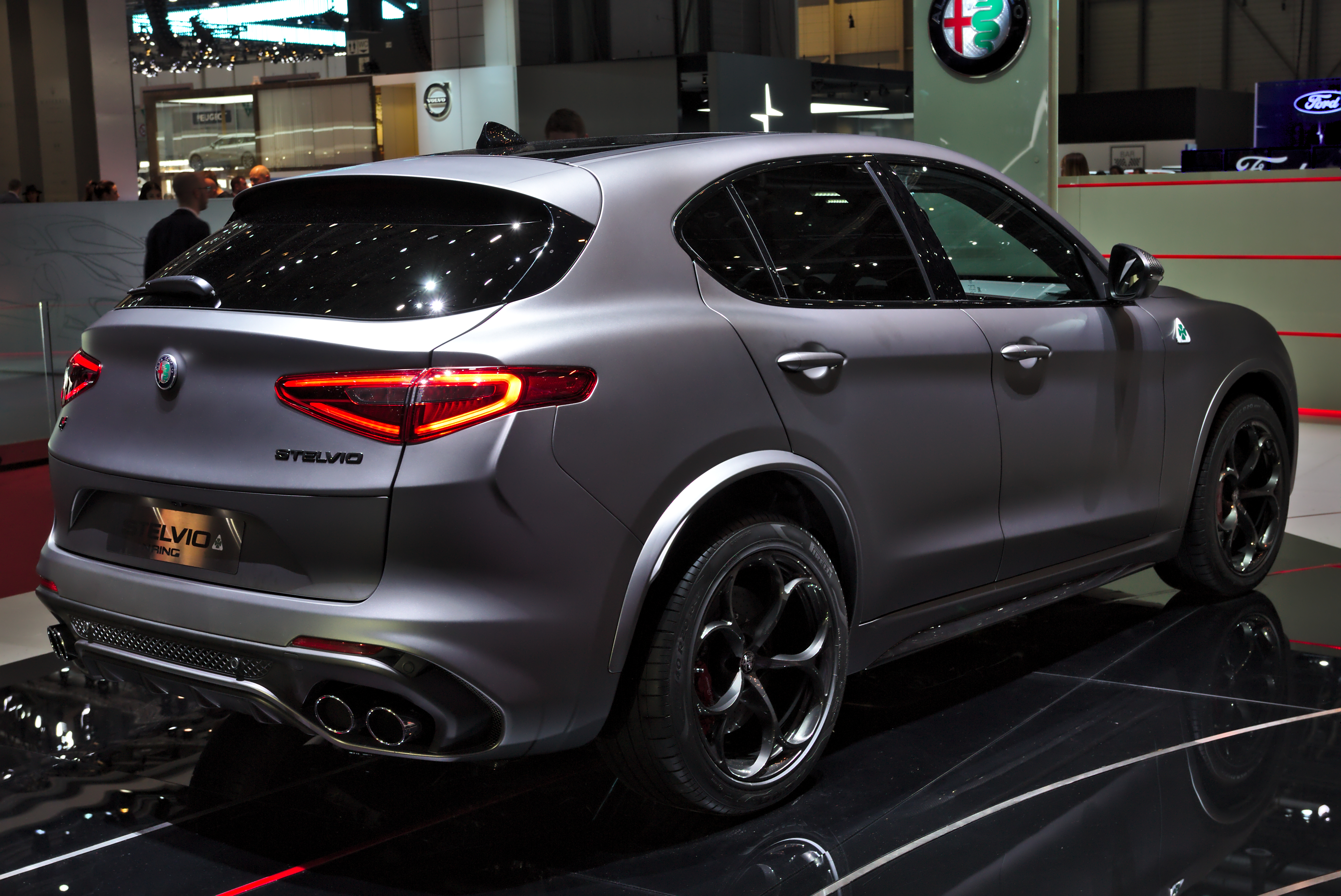 Alfa Romeo Stelvio QV Nring at Geneva Motorshow 2018